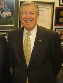 Senator Richard Lugar with Purdue University President Martin Jischke.